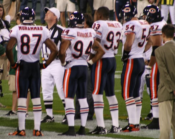 A Photo of the Bears' 2007 Captains, taken on October 7, 2007 at Lambeau Field. In this Photo (left to right): Muhsin Muhammad - 87 - Wide receiver Brendon Ayanbadejo 94 - Gunner Adewale Ogunleye - 93 - Defensive end Brian Urlacher - 54 - Middle linebacker Olin Kreutz - 57 - Center